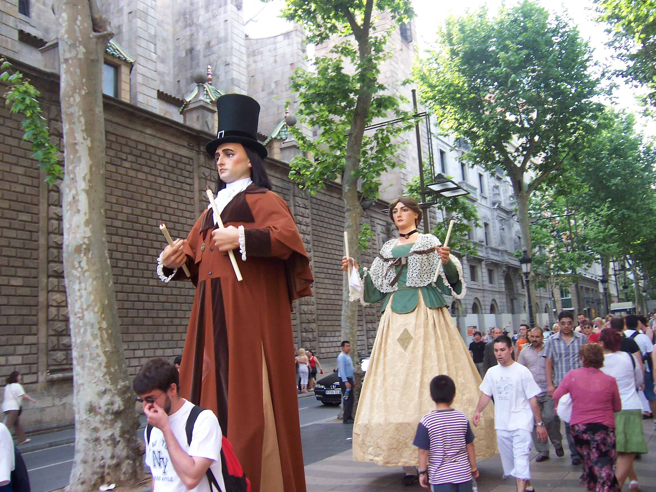 "Giants" on Les Rambles (The Avenues), Barcelona.